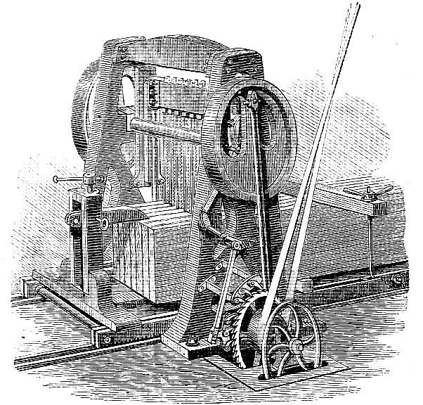 Vertikal ramsåg. Källa: red. D:r L. A. Forssman, Nittonde århundradet. En populär framställning af de vigtigaste momenten i vårt århundrades materiela utveckling. (1878) This image (or other media file) is in the public domain because its copyright has expired. This applies to Australia, the European Union and those countries with a copyright term of life of the author plus 70 years. You must also include a United States public domain tag to indicate why this work is in the public domain in the United States. Note that a few countries have copyright terms longer than 70 years: Mexico has 100 years, Colombia has 80 years, and Guatemala and Samoa have 75 years, Russia has 74 years for some authors. This image may not be in the public domain in these countries, which moreover do not implement the rule of the shorter term. Côte d'Ivoire has a general copyright term of 99 years and Honduras has 75 years, but they do implement the rule of the shorter term. This file has been identified as being free of known restrictions under copyright law, including all related and neighboring rights.